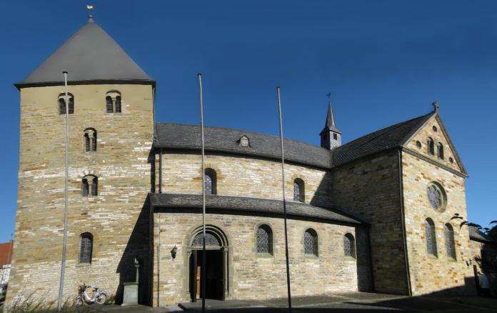 catholic parish church St. Dionysius in Lippstadt-Bökenförde